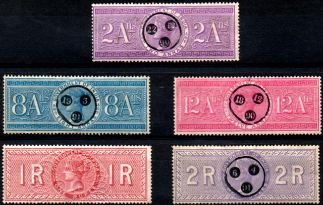 India 1868 Special Adhesive Revenue Stamps